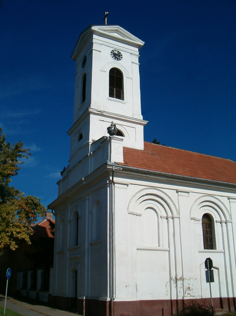 Slovak church in Zrenjanin